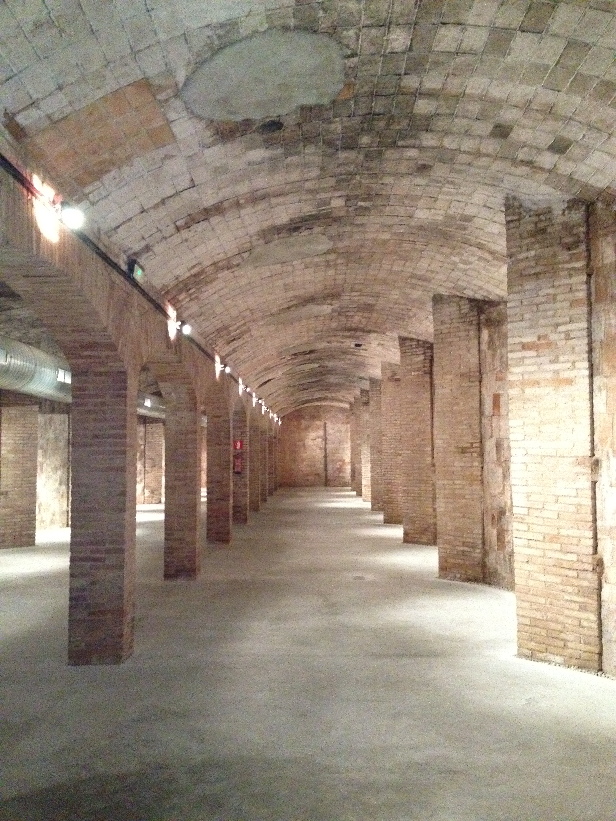 Celler Cooperatiu de Rubi. Soterrani